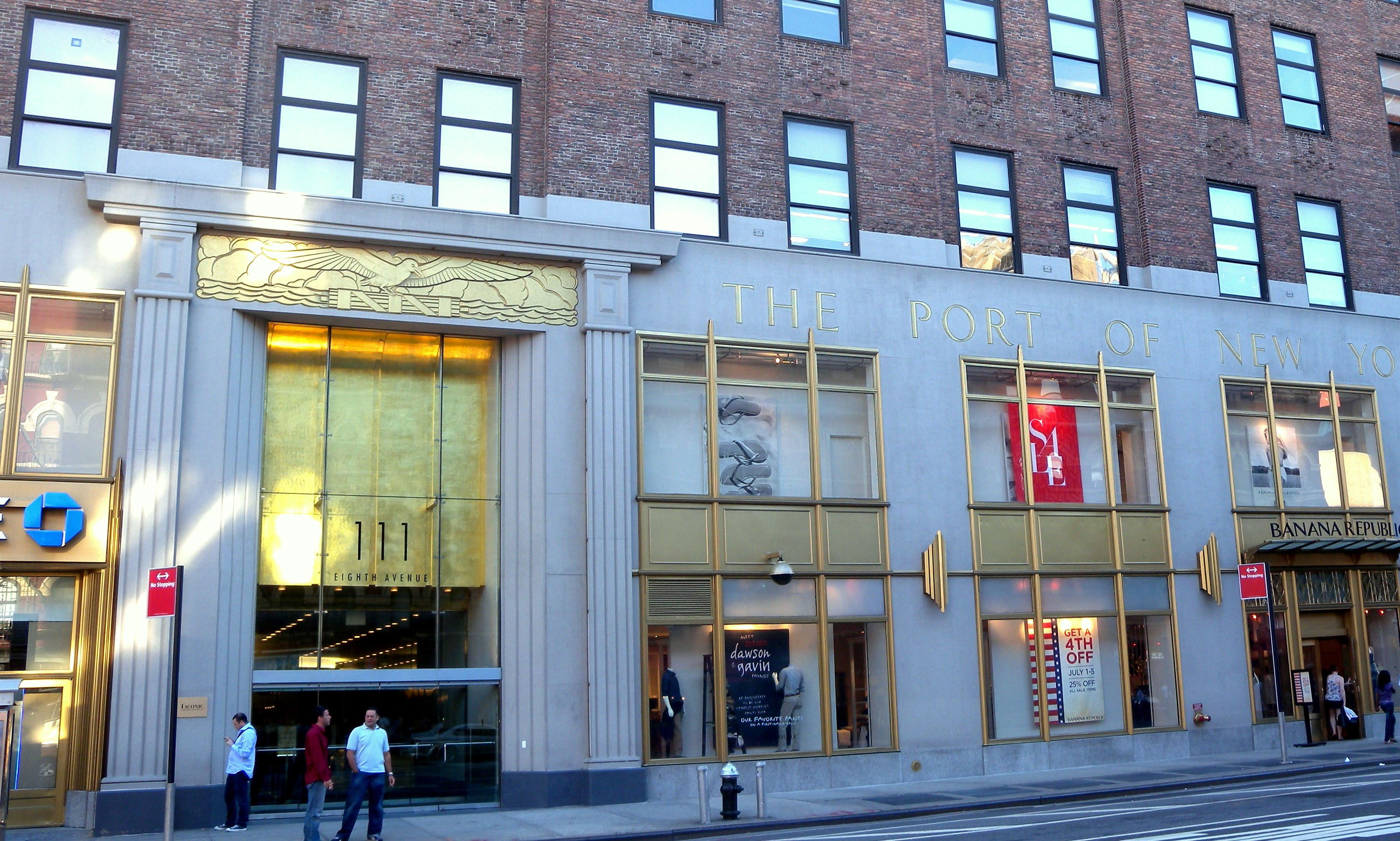 Looking northwest at 111 Eighth Avenue, former Inland Freight Terminal, now serving East Coast Google HQ and several other Internet-related tenants.